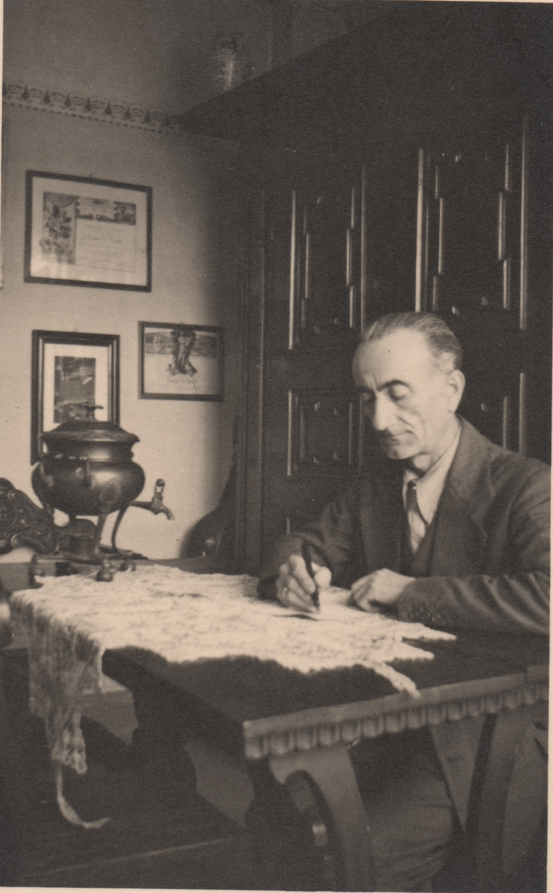 Lorenzo de Paolis composing